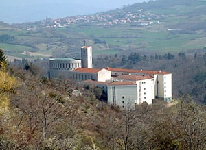 a typical photograph of the benedictan abbaye of Randol in France.